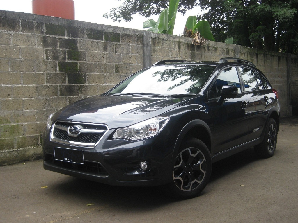 2013 Subaru XV 2.0i Premium, photographed in Jakarta, Indonesia.